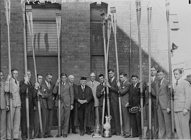 Students and staff of Sydney Grammar School in 1934.